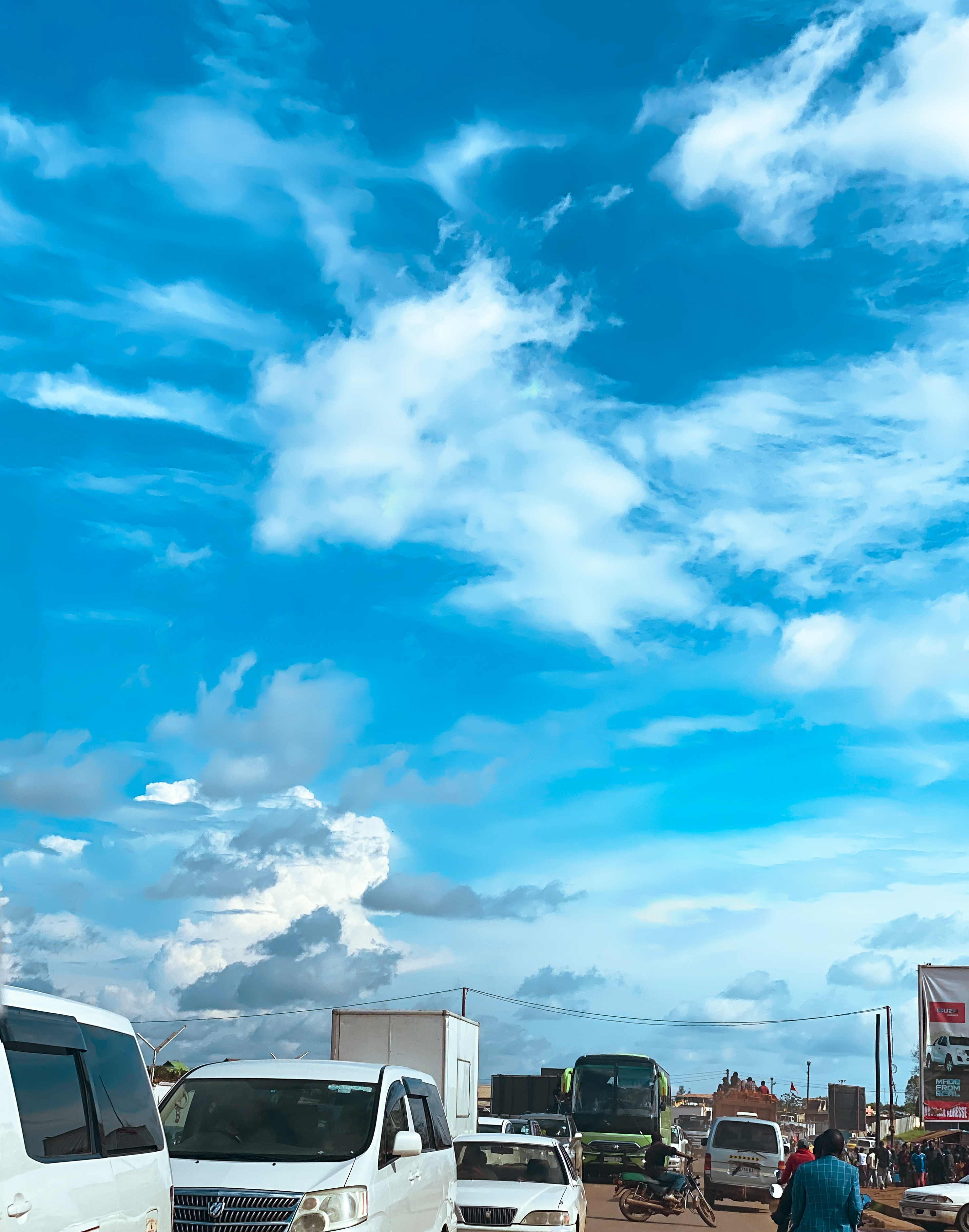 This is an image with the theme "Africa on the Move or Transport" from: Democratic Republic of the Congo